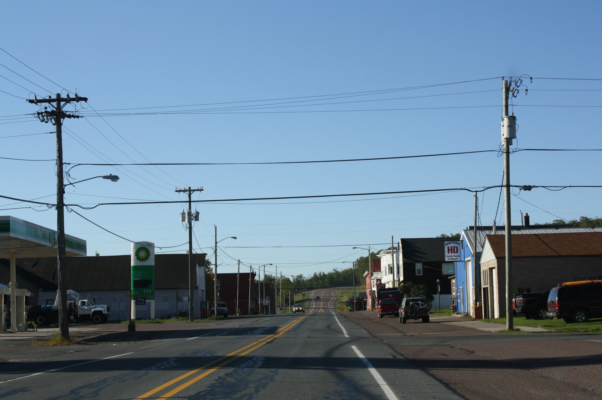 Looking south at downtown South Range, Michigan on M-26 (Michigan highway).